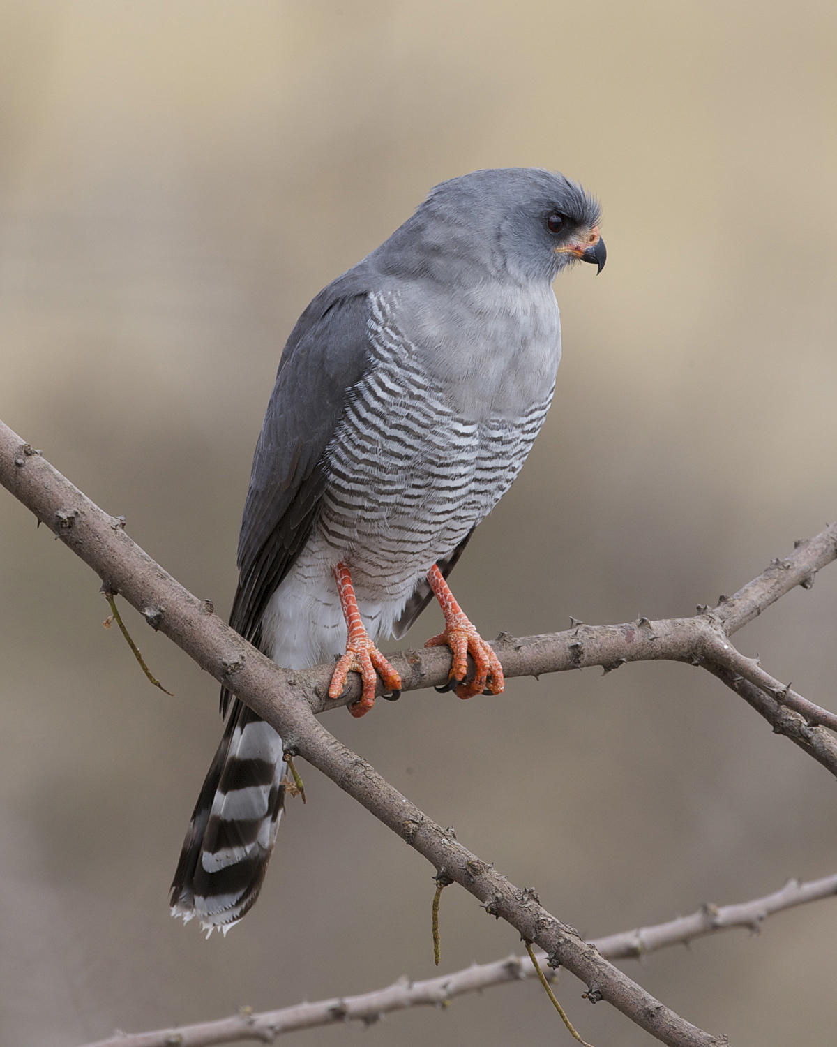 A Gabar Goshawk near Kilimanjaro, Kambi ya Tembo, Tanzania.